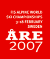 Logo of FIS alpine world ski championships 2007 in Åre (Sweden)